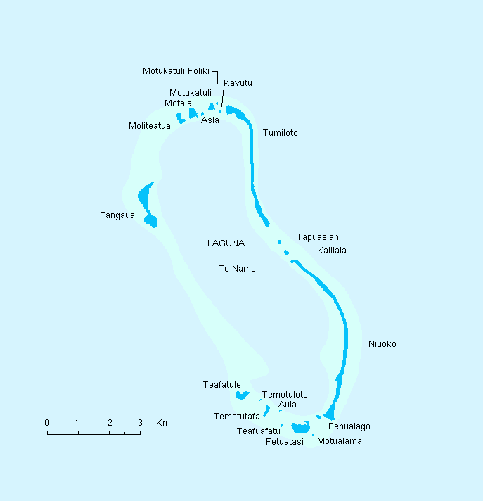 Map indicating islands of Nukulaelae atoll, Tuvalu